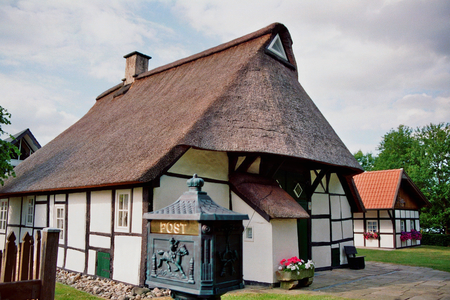 Timber framed “Krippken”, a small former farmhouse, in Mettingen, North Rhine-Westphalia, Germany.